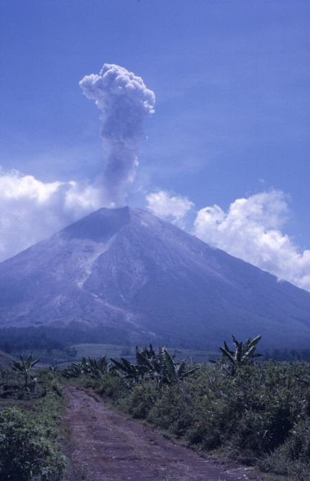 The Argopuro volcano